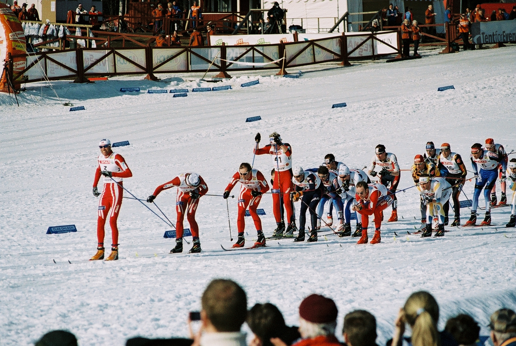 FIS Cross Country Skiing World Cup in Falun, Sweden, March 2007 Men's pursuit